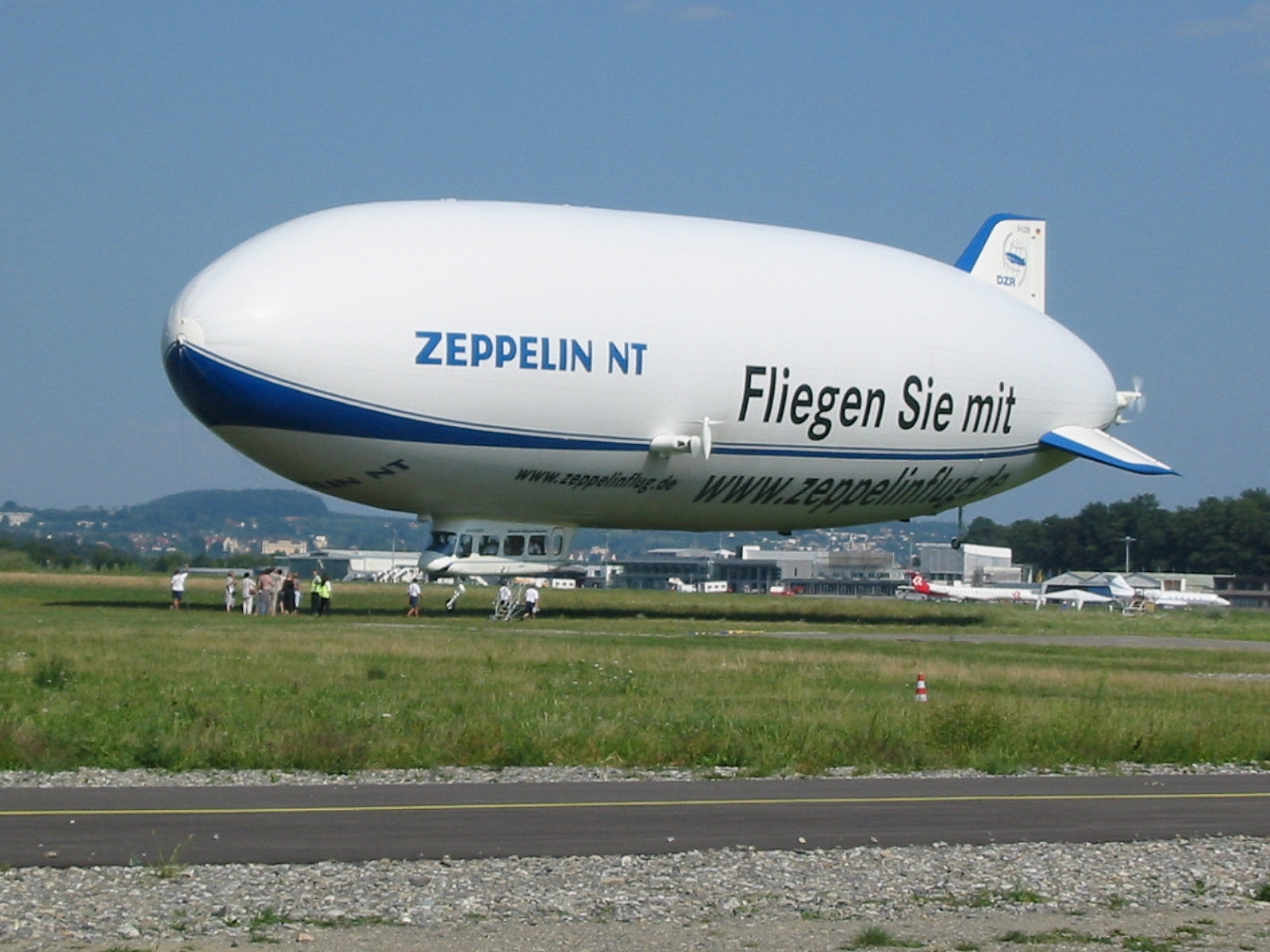 Germany, Baden-Württemberg, airship D-LZZR at the airport in Friedrichshafen